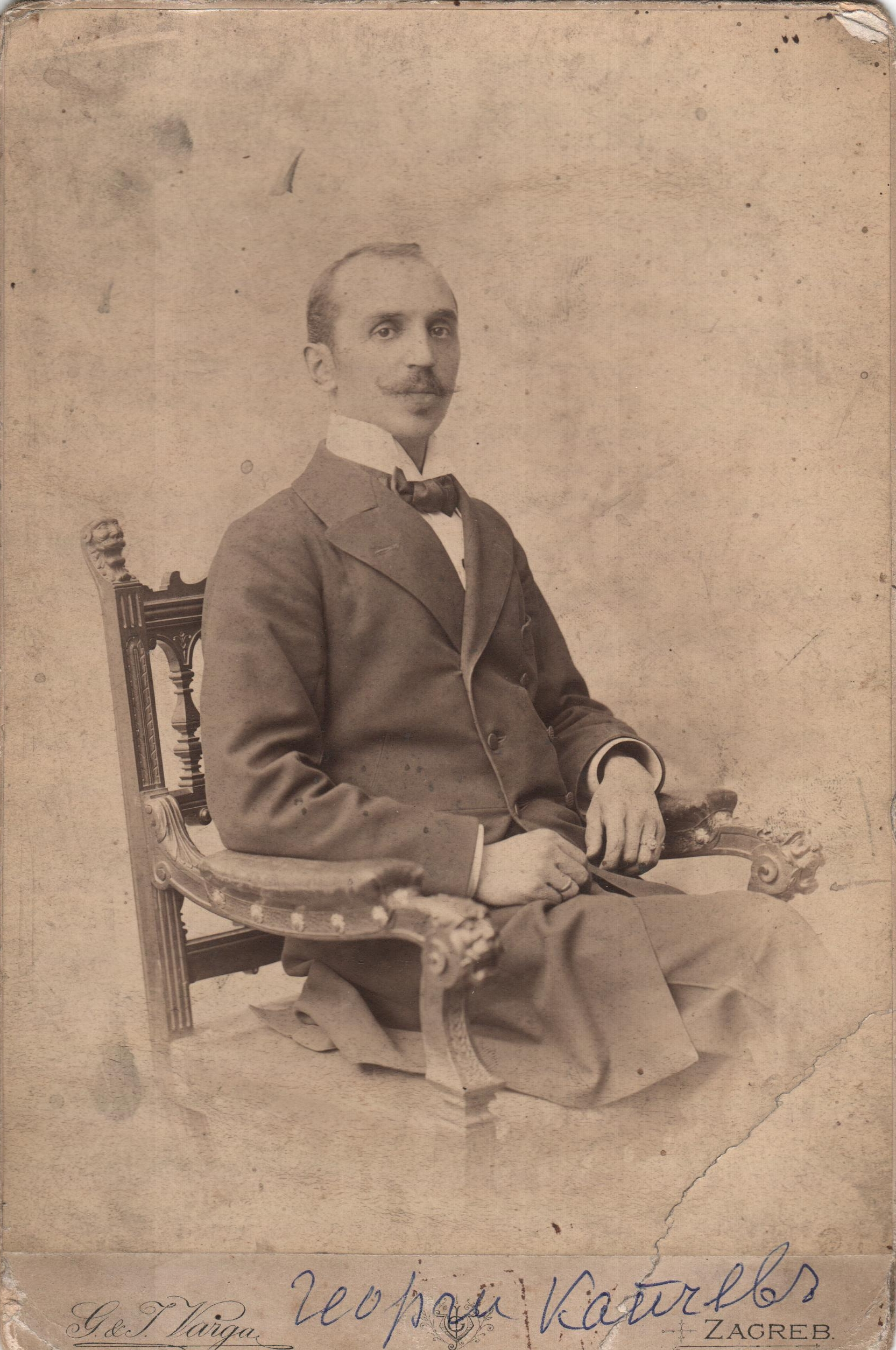 Georgi Kapchev Bulgarian publicist as a young lawyer in Zagreb